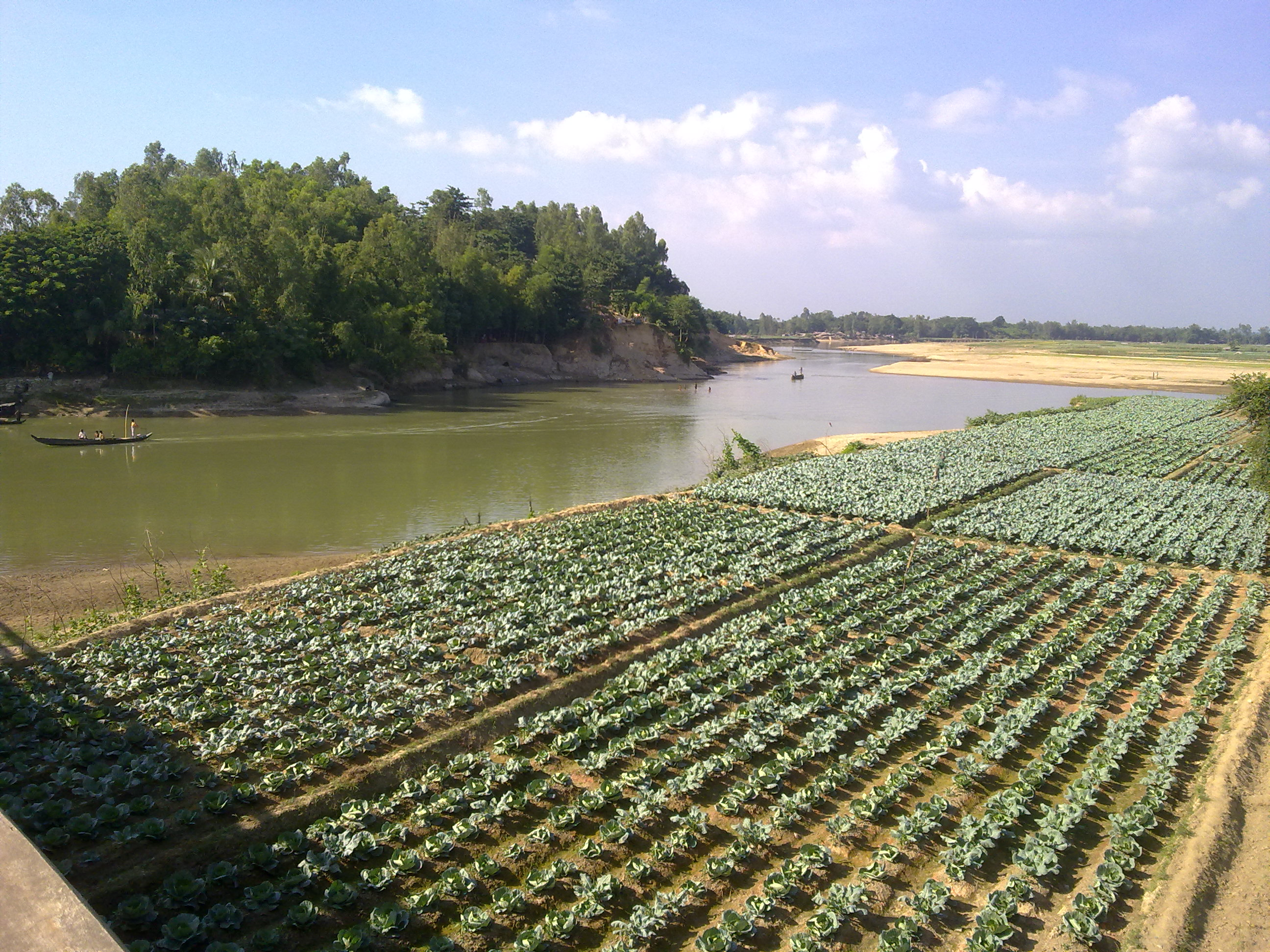 A river which name Matamohori.It is located at Chakaria in Cox's Bazar distric.It is in Bangladesh.